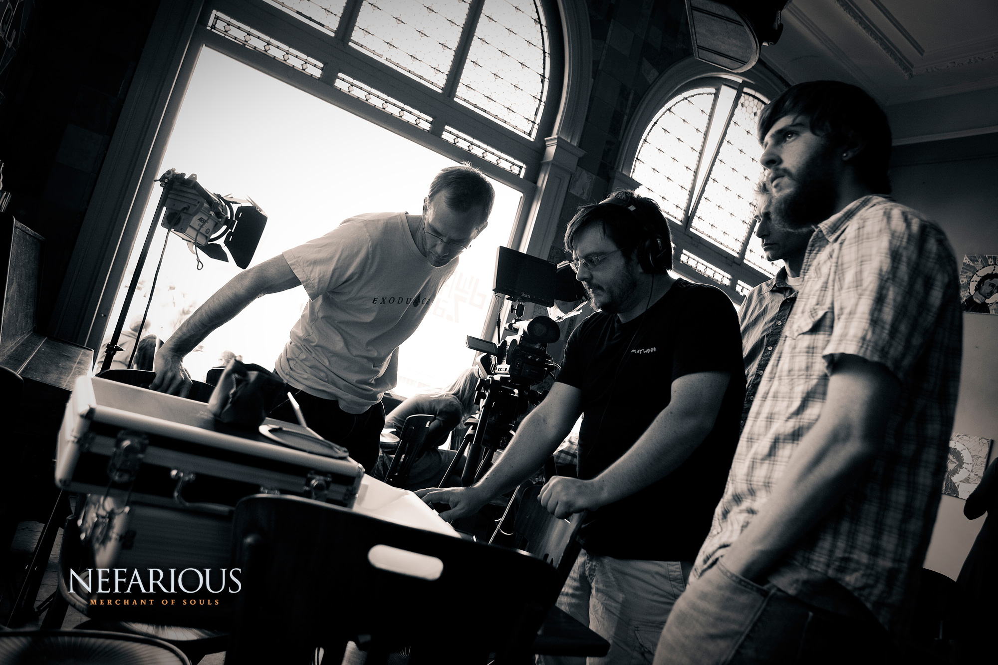 A photograph of the production of the film Nefarious: Merchant of Souls. Benjamin Nolot is leftmost and Matthew Dickey is second from the left.